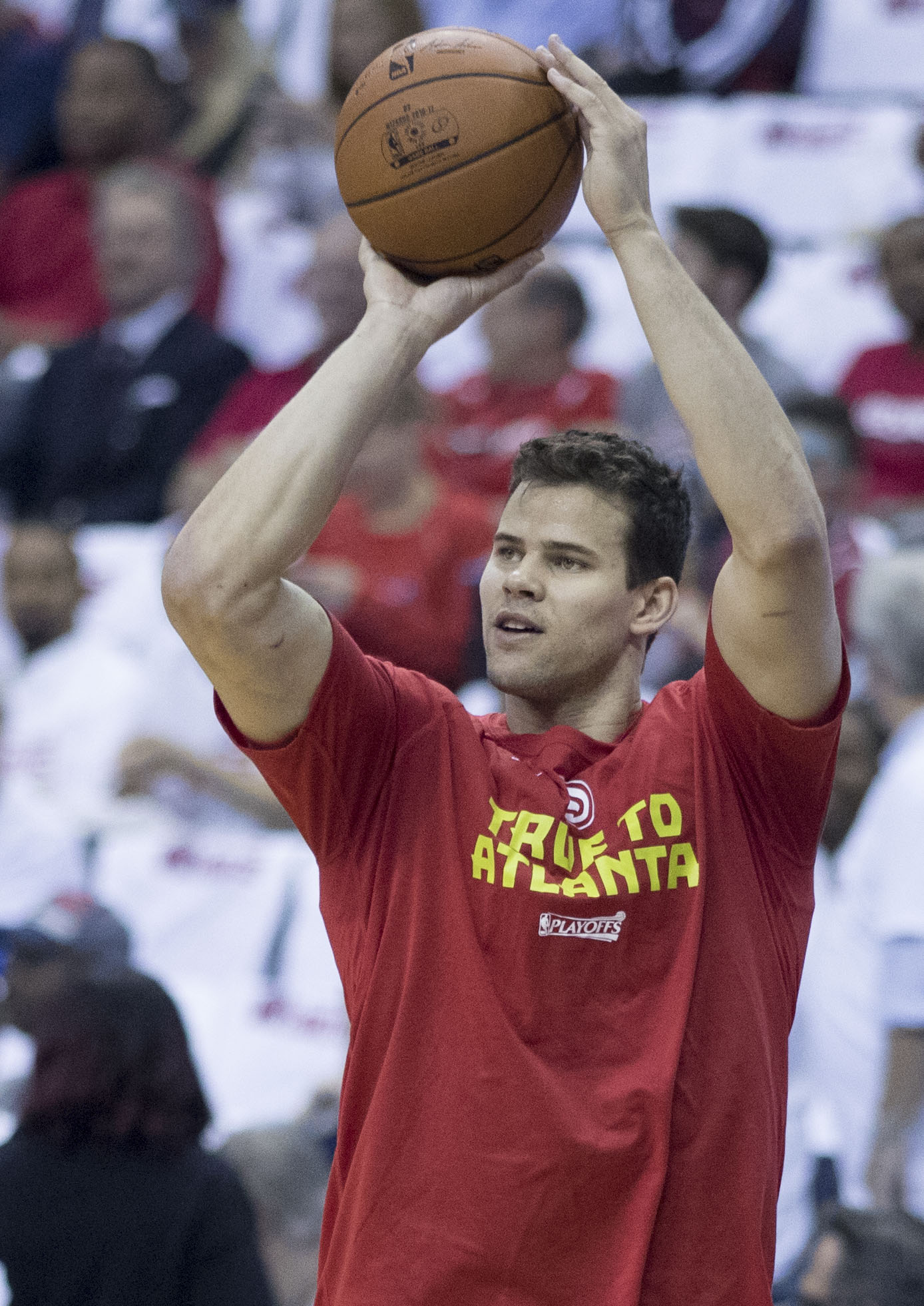 Hawks at Wizards Round 1 Playoffs 4/16/17